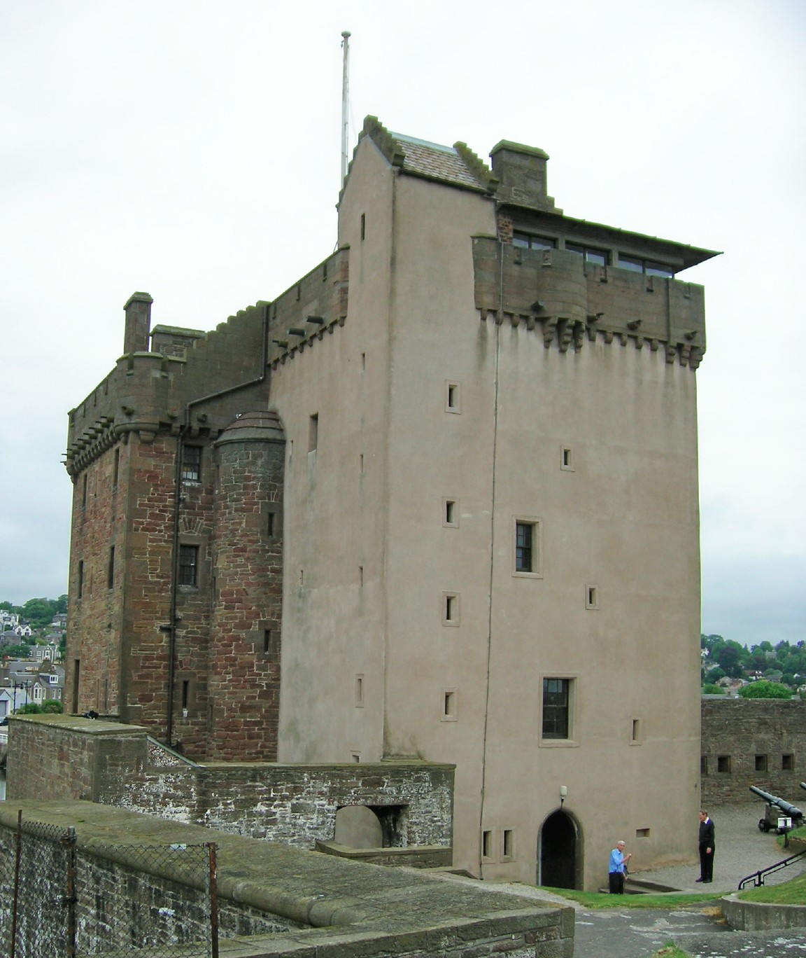 Broughty Castle, Main Tower, Dundee UK